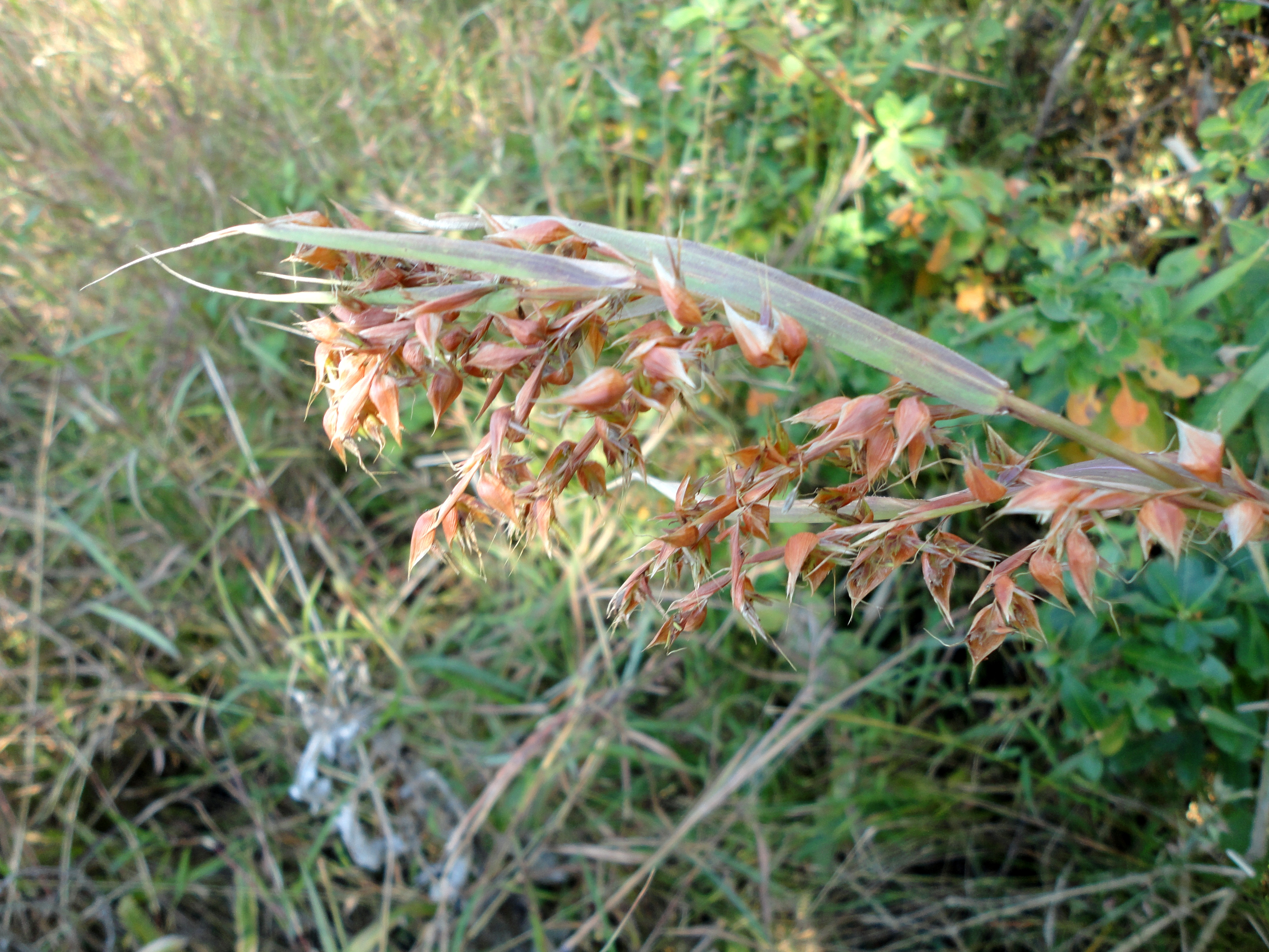 Boat thatching grass on verge of a forested stream, near Louwsburg, South Africa